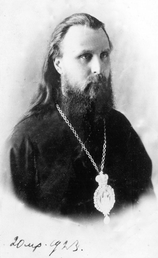 Bishop Ilarion Troicky